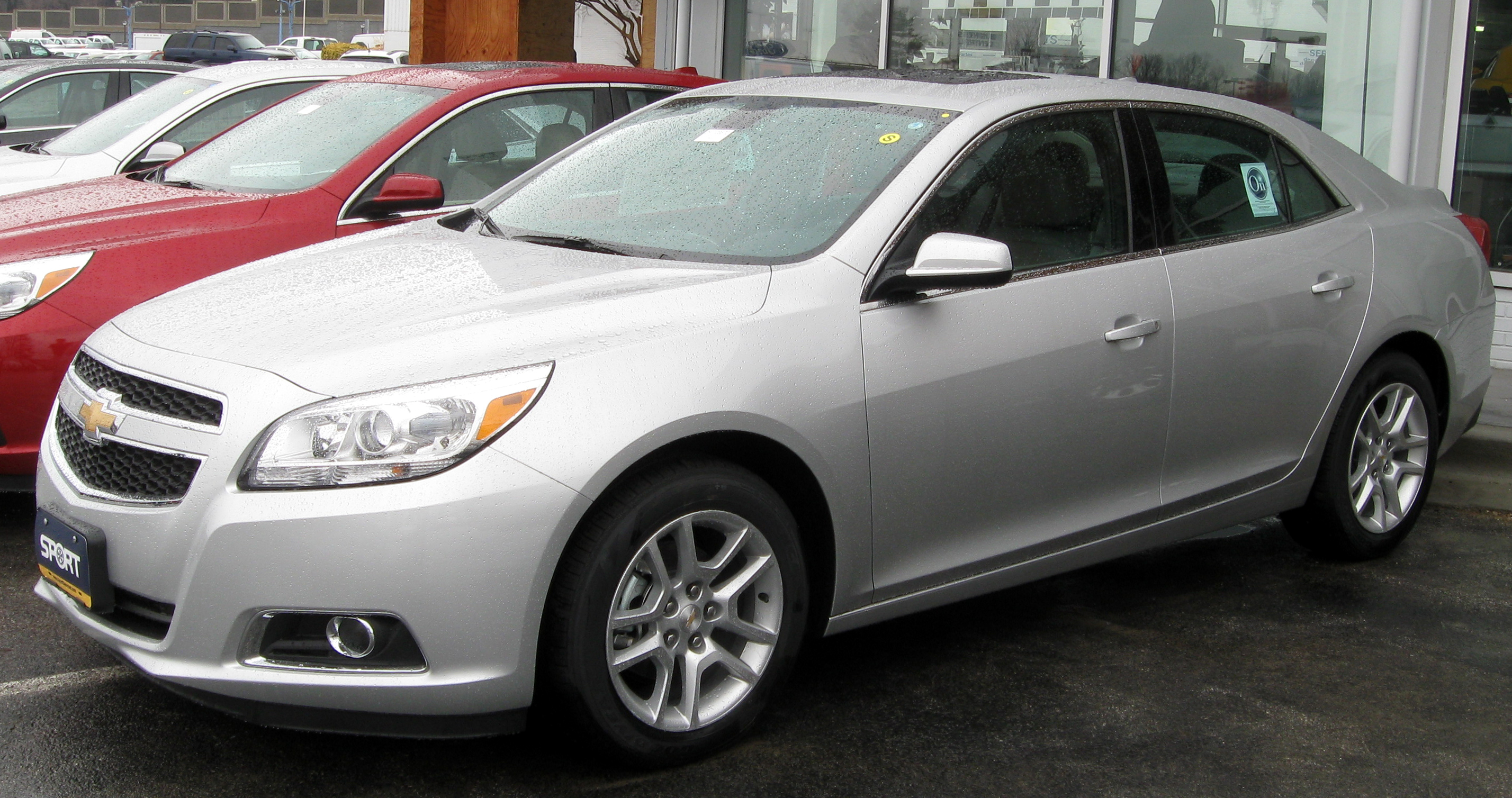 2013 Chevrolet Malibu photographed in Silver Spring, Maryland, USA.